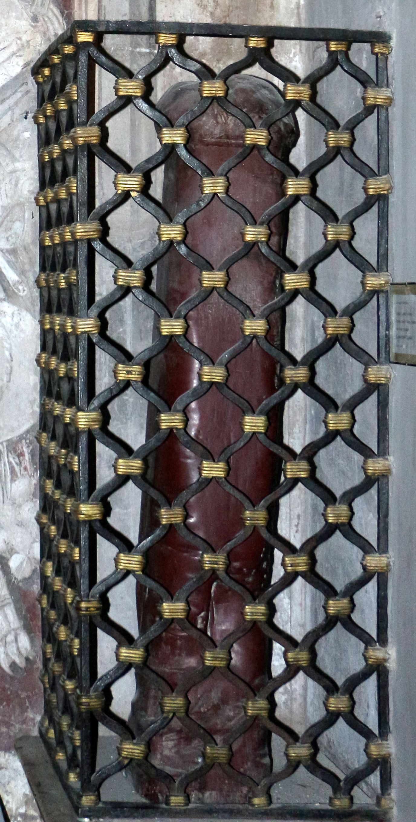 Santa Bibiana (Rome)